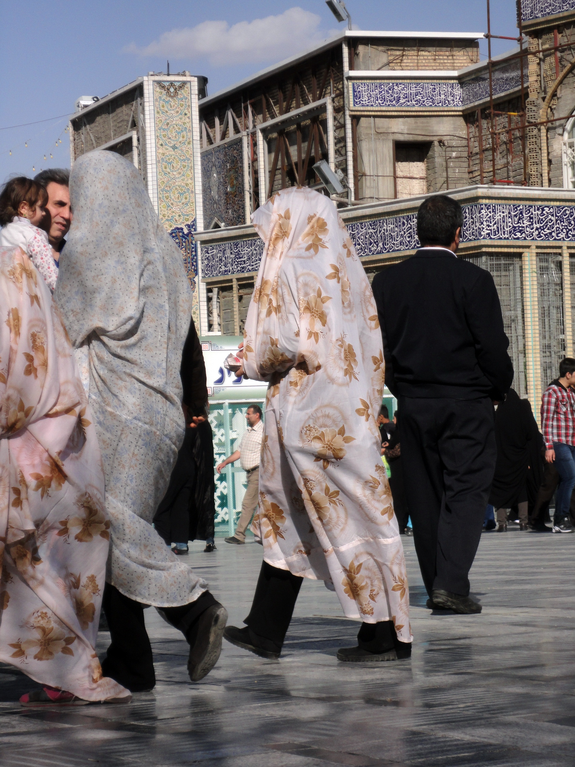 Pilgrims and People around the Holy shrine of Imam Reza at Niruz days - Mashhad - Khorasan - Iran